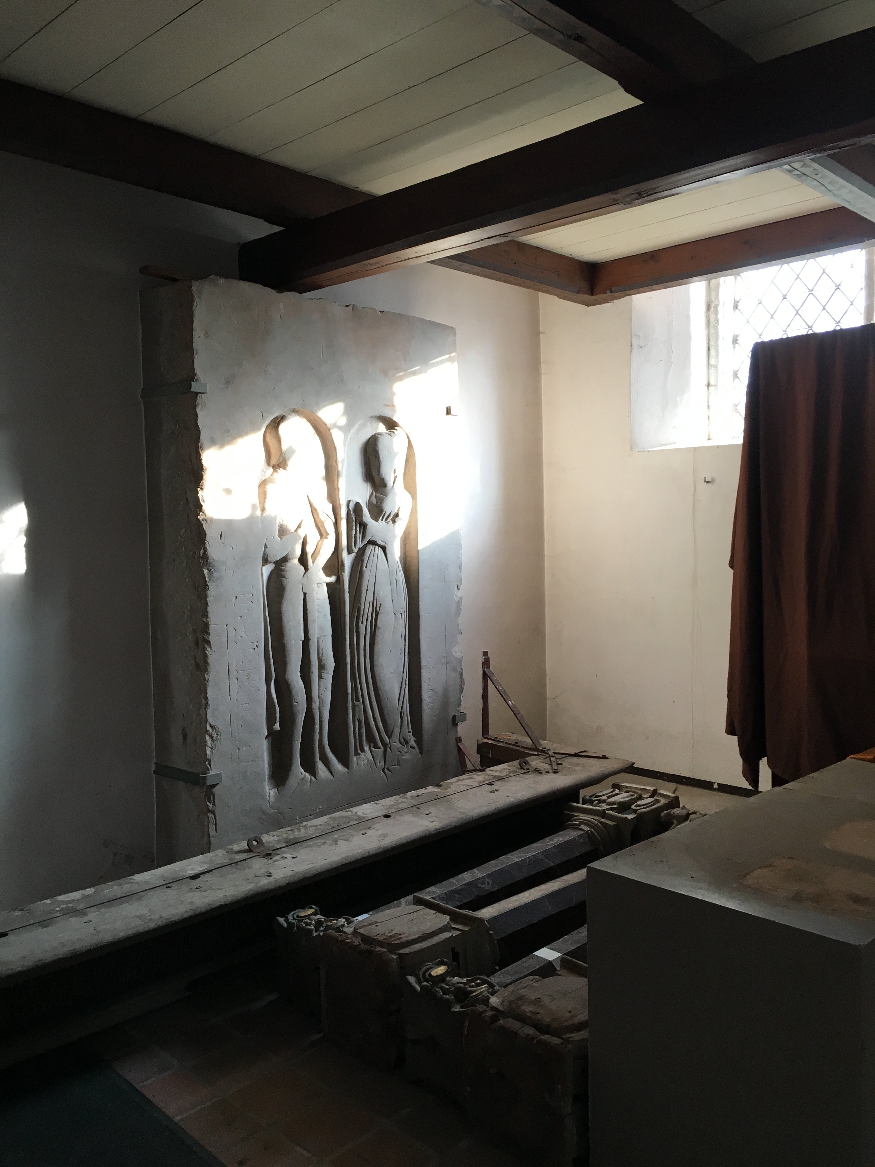 Ratzeburger Dom